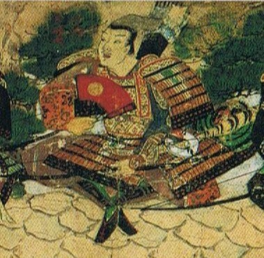 『蒙古襲来絵詞』Kikuchi Takefusa sitting on the wall at Hakata Bay awaiting the Mongol invasion force.